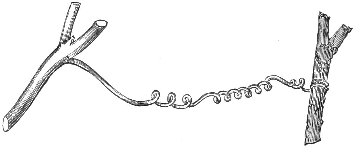 A caught tendril of bryonia dioica